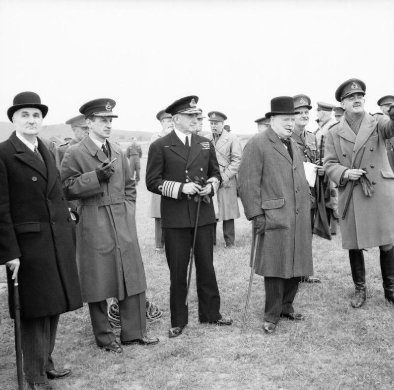 Winston Churchill (second from right) with his scientific advisor Lord Cherwell (extreme left), Air Chief Marshal Sir Charles Portal and Admiral of the Fleet Sir Dudley Pound, watching a display of anti-aircraft gunnery.